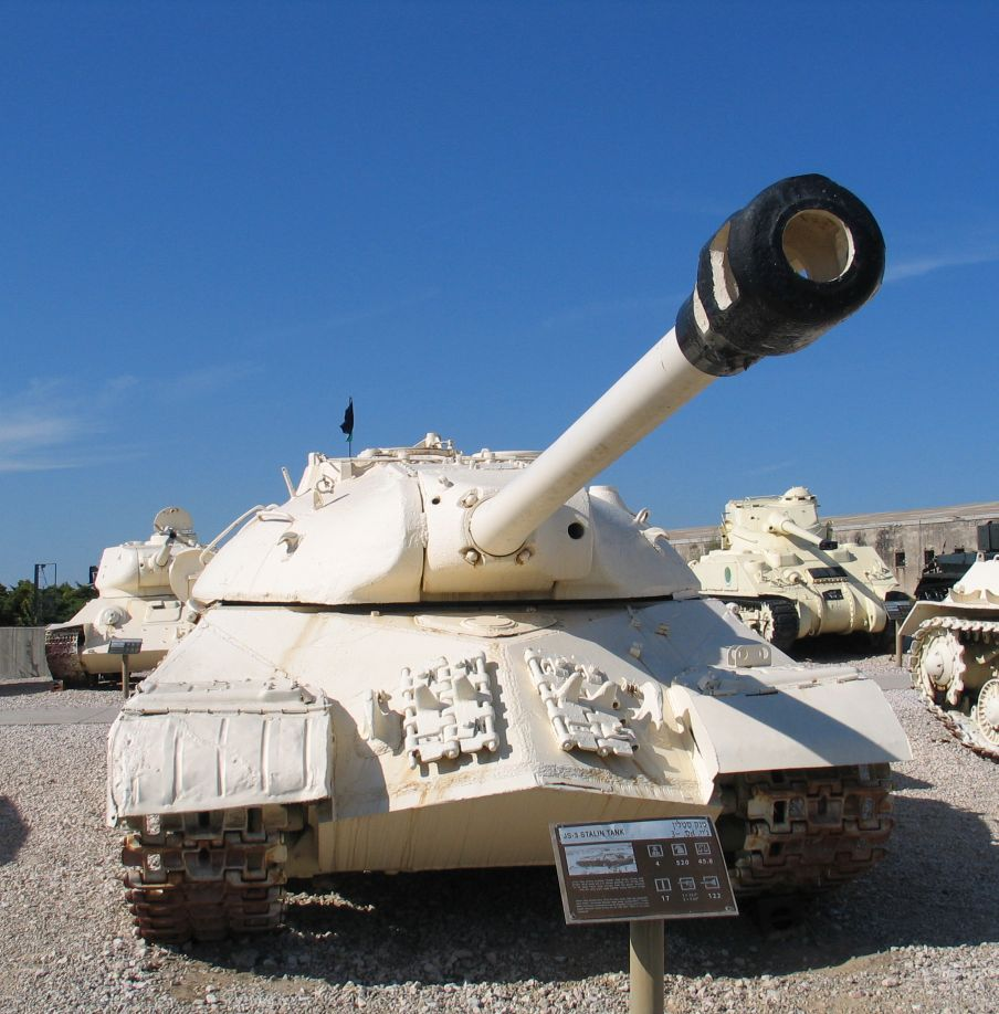 Captured Egyptian IS-3 heavy tank in Yad la-Shiryon Museum, Israel